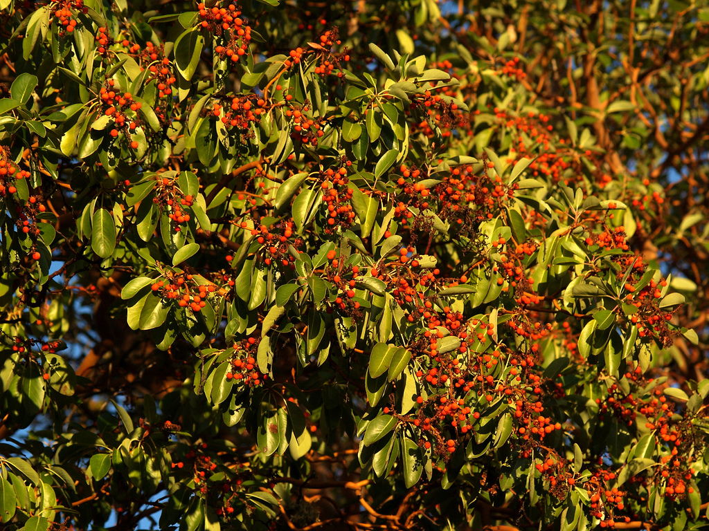 Pacific Madrone Arbutus menziesii with berries. Jacksonville Woods, Medford, Oregon.